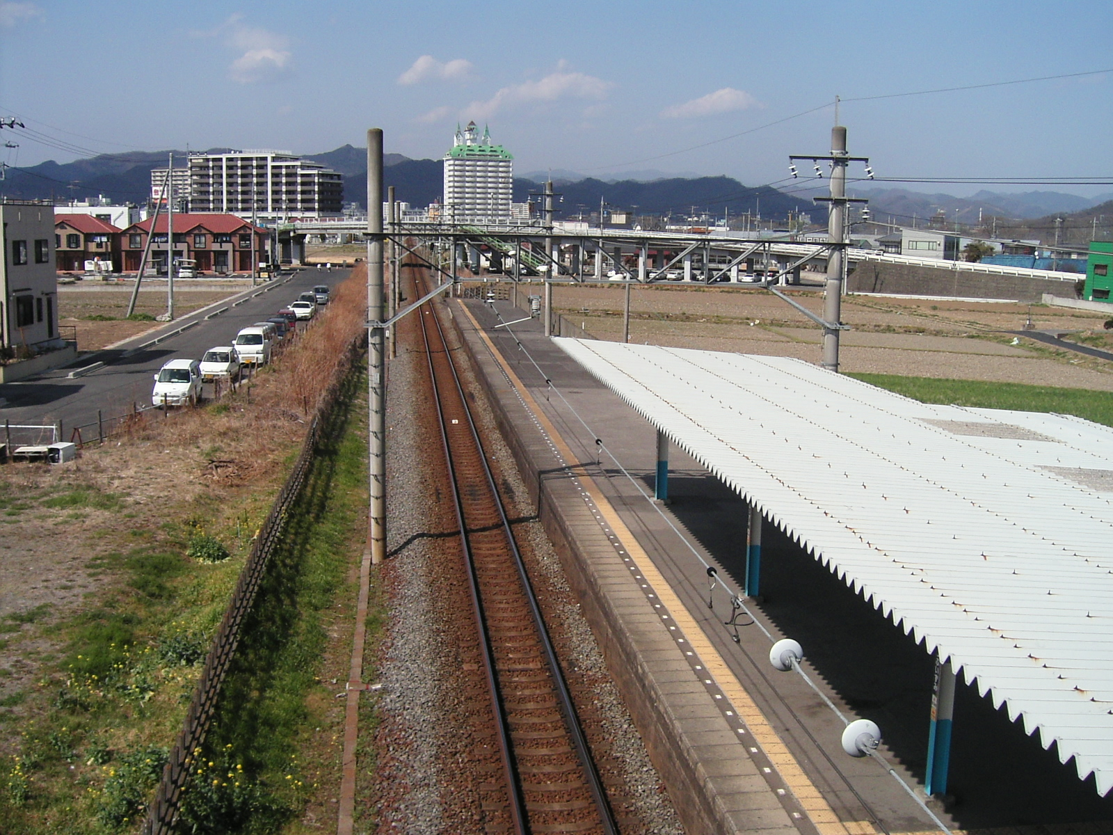 Tobu Izumi station in Tobu Isesaki Line in Ashikaga city, Tichigi pref, Japan 東武和泉駅